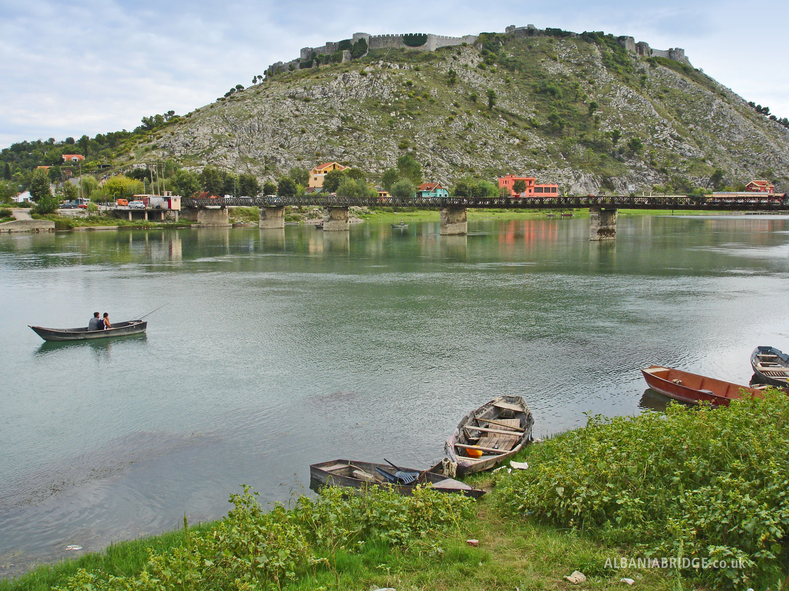 Shkodra Castle. Photographed during Albania trip for Oxfam, September 2005 by Christian Guthier. Can also be found at